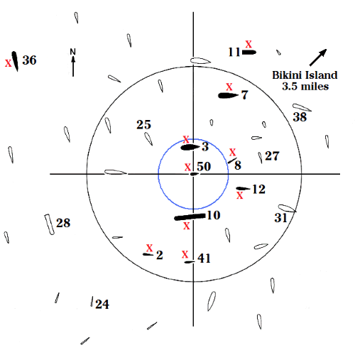 The array of target ships in Bikini lagoon for the Baker shot of Operation Crossroads, July, 25, 1946. The ten red X's mark the ten ships that sank. The black circle, with a radius of 1,000 yards from the point of detonation, outlines the area of serious ship damage. The blue circle, 330-yard radius, marks the rim of the shallow underwater crater created by the blast, as well as the circumference of the hollow water column which lifted the Arkansas. The submarines were submerged, the Pilotfish, ship #8, to a keel depth of 56 feet, and the Apogon, ship # 2, to a keel depth of 100 feet.